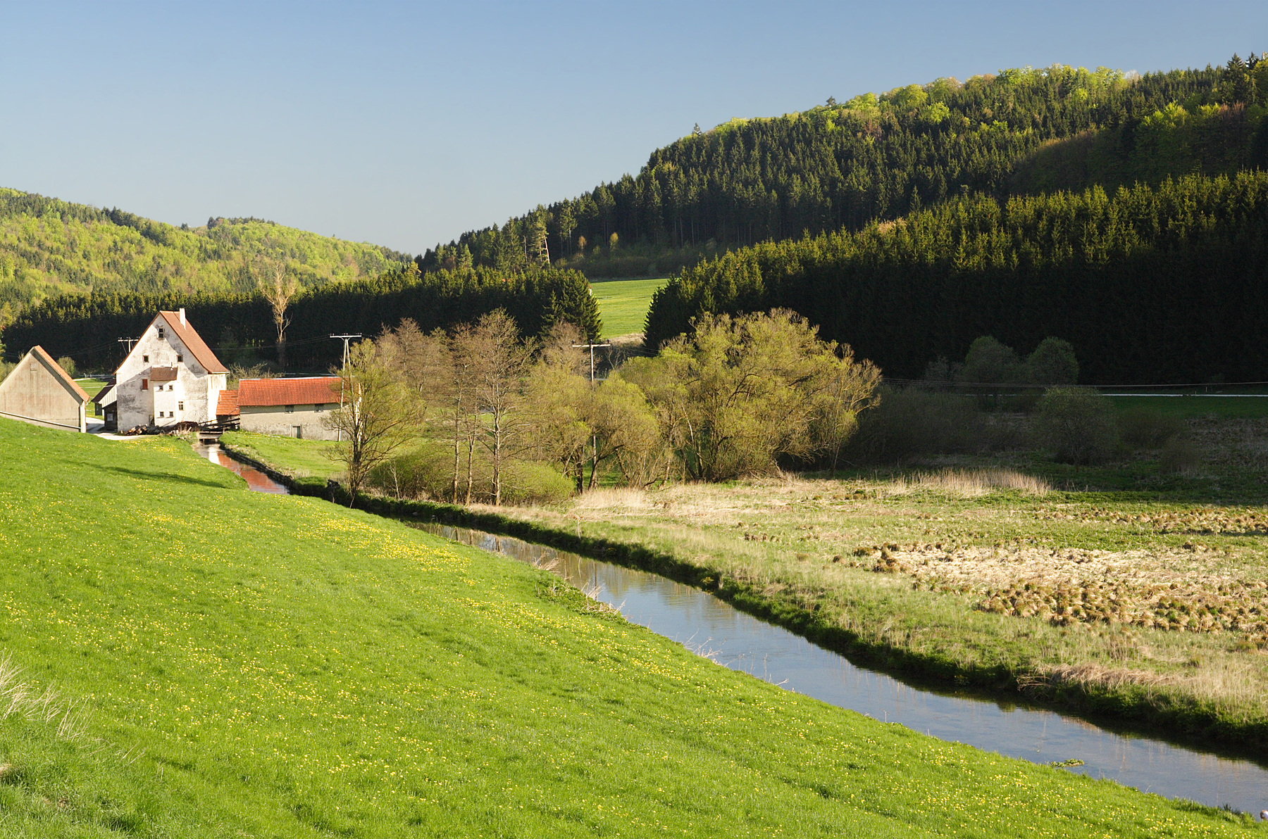 "Sawmill" in a relatively broad valley of the Lauchert, south western Swabian Alb. This underpopulated landscape is a typical feature of the Swabian Alb. Here, it has been formed by Karst and by geologically old water systems.